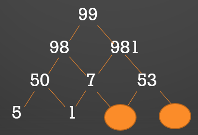 รูปแสดงBeap กราฟ